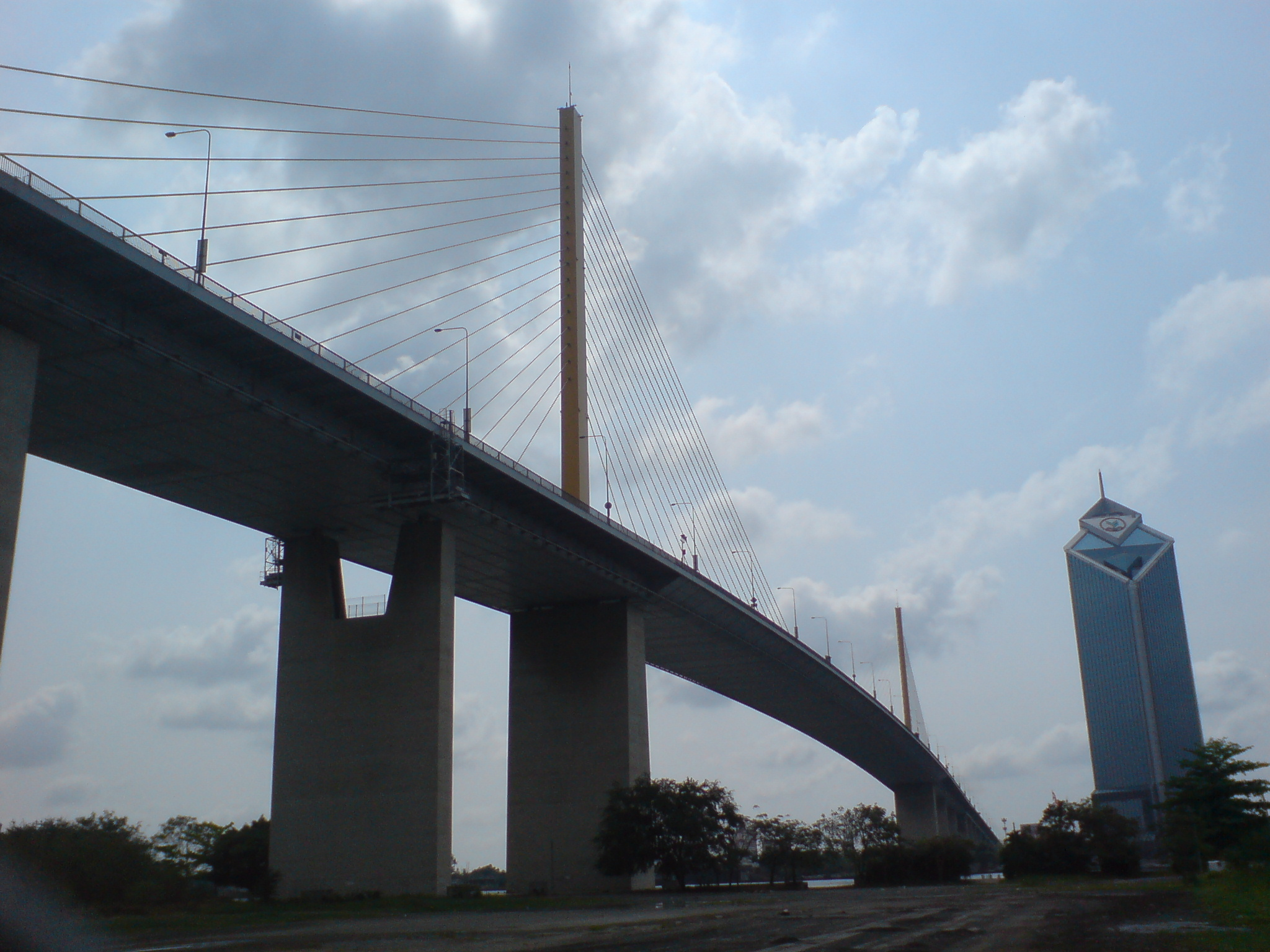 Rama IX Bridge in Bangkok